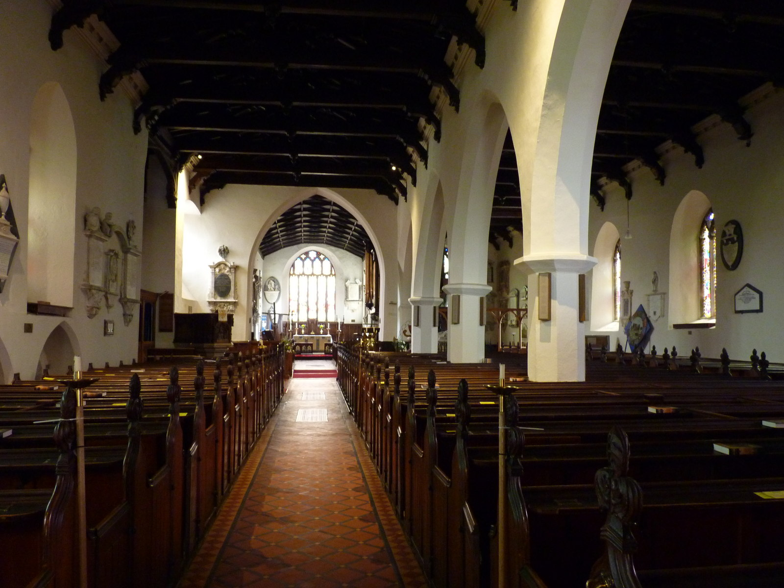 The interior of St Peter's Church, Carmarthen, West Wales, a Grade I listed church and claimed to have the longest nave in the diocese